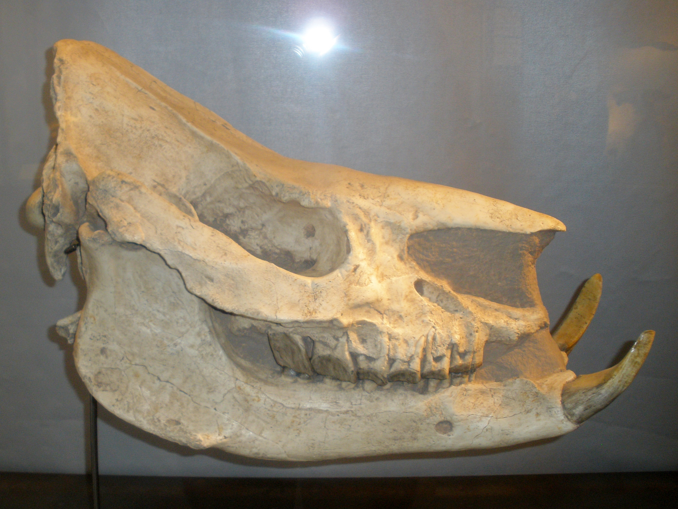 fossil rhinoceros